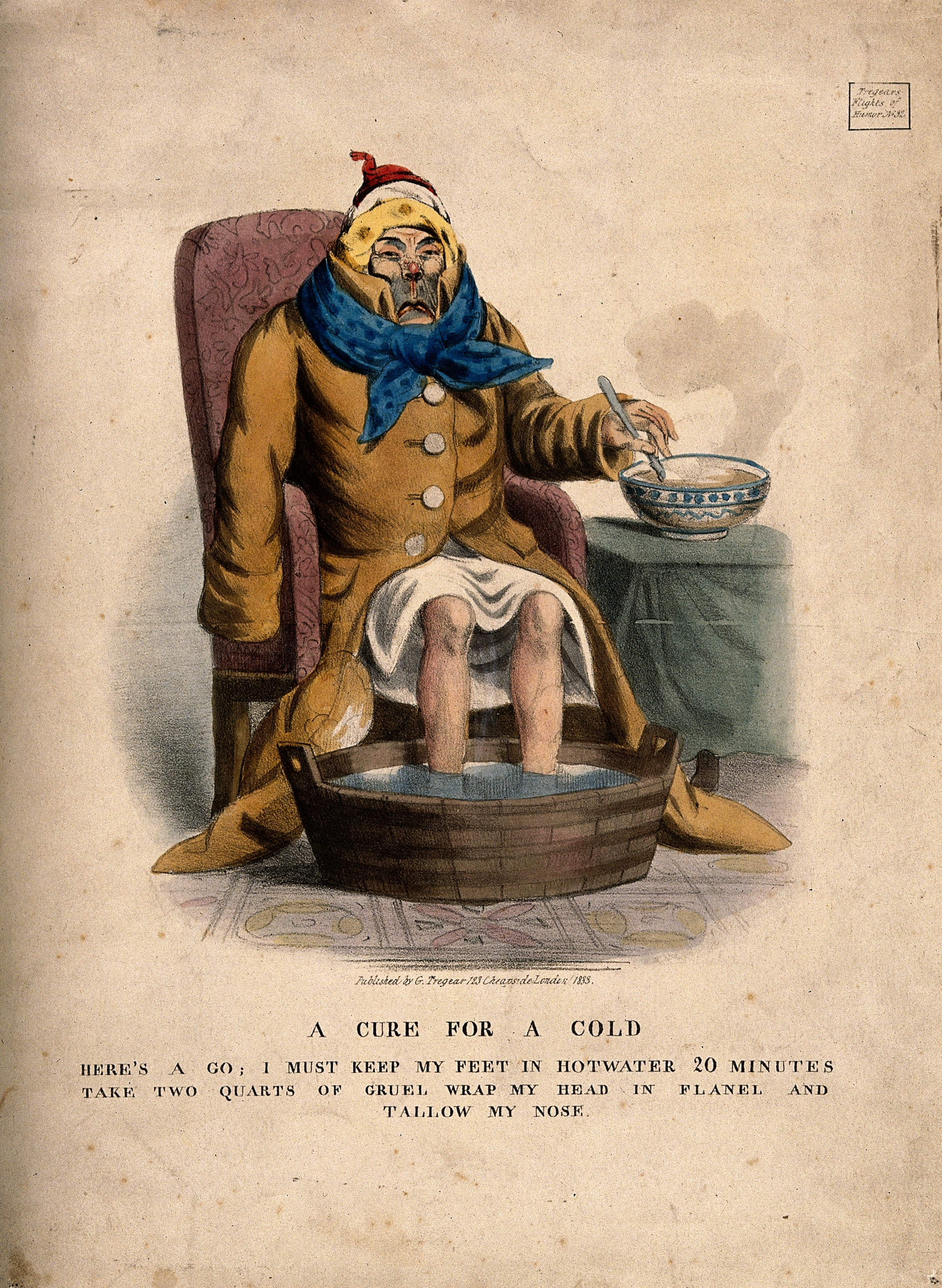 Topic-LCSH: Self medication. Hydrotherapy. Cold (Disease) -- Prevention. House furnishings -- Great Britain -- 19th century. Genre/Technique: Caricatures. Lithographs.